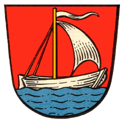 Coat of arms of Geilnau